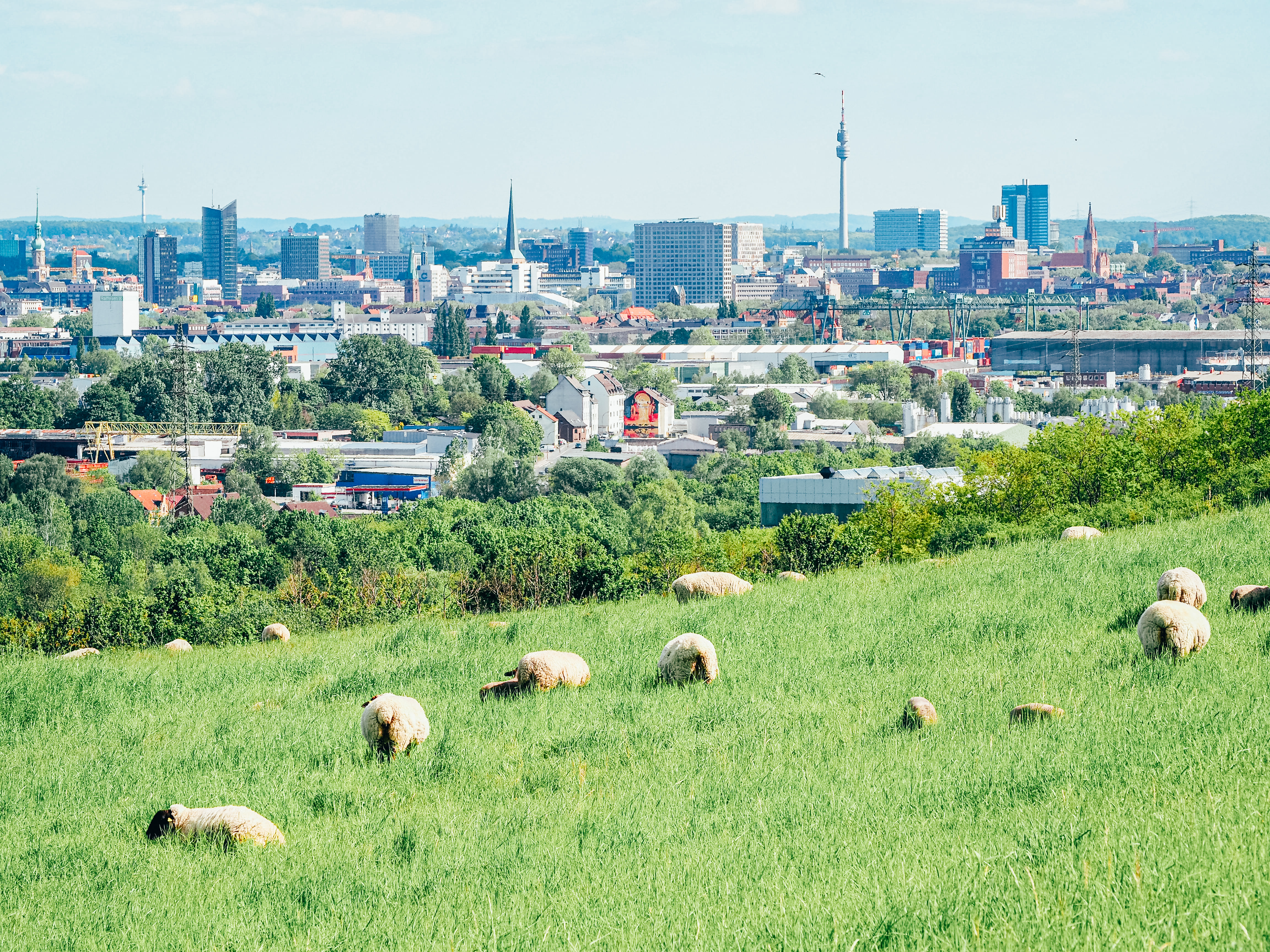 Green Ruhr 2027 Dortmund